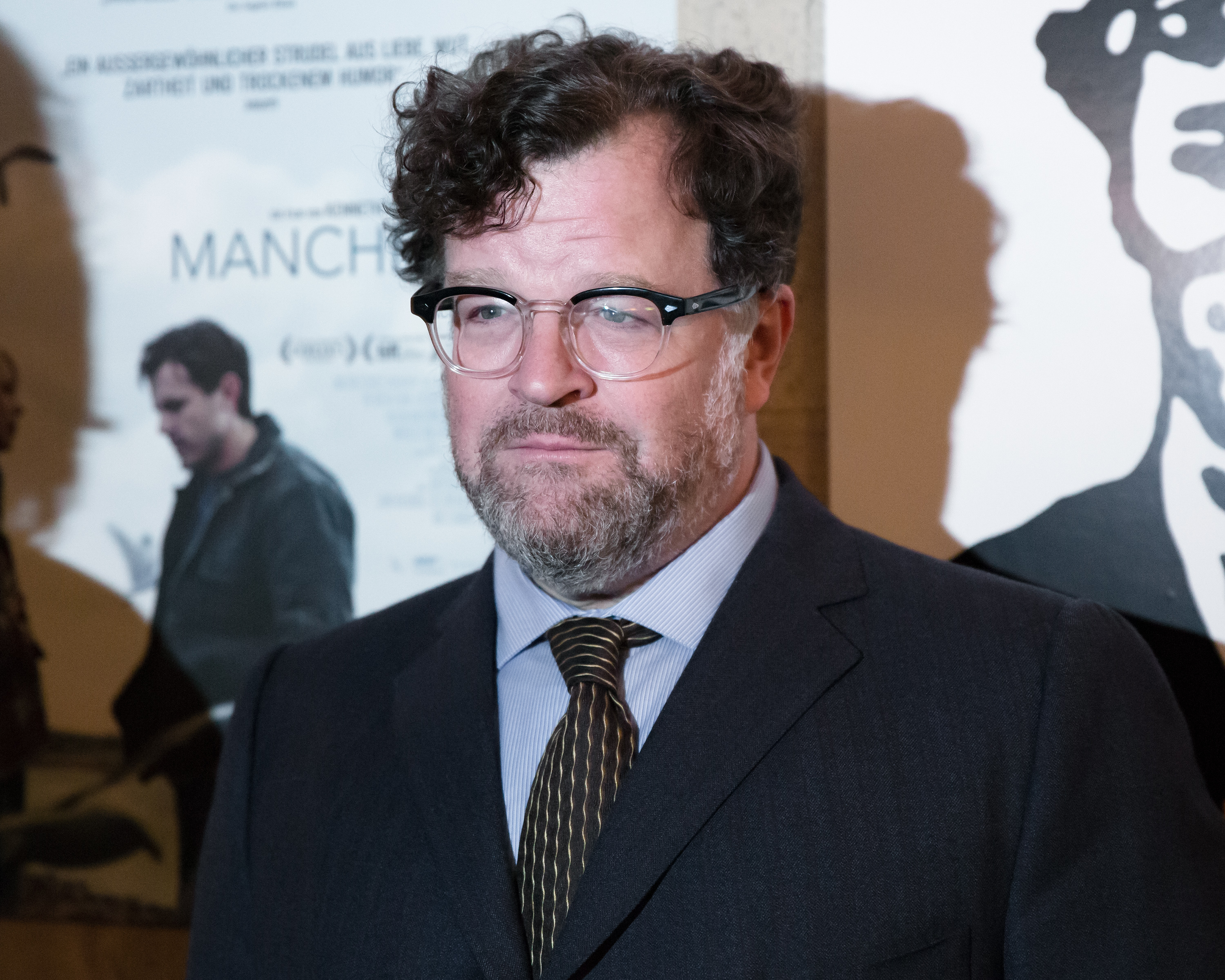 Kenneth Lonergan at the opening evening of the Vienna International Film Festival 2016 at Gartenbaukino in Vienna.